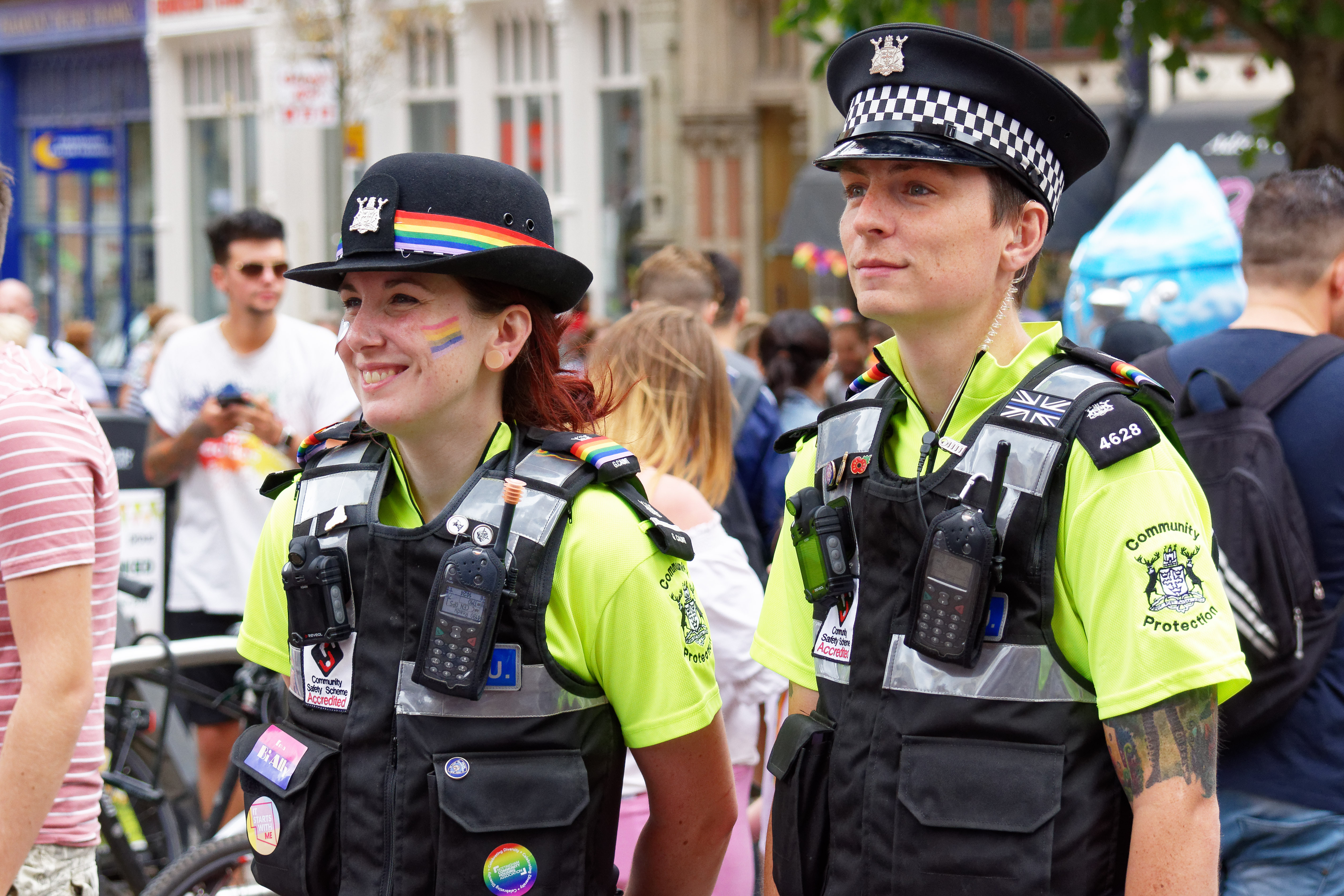 Hockley, Nottingham, July 2018